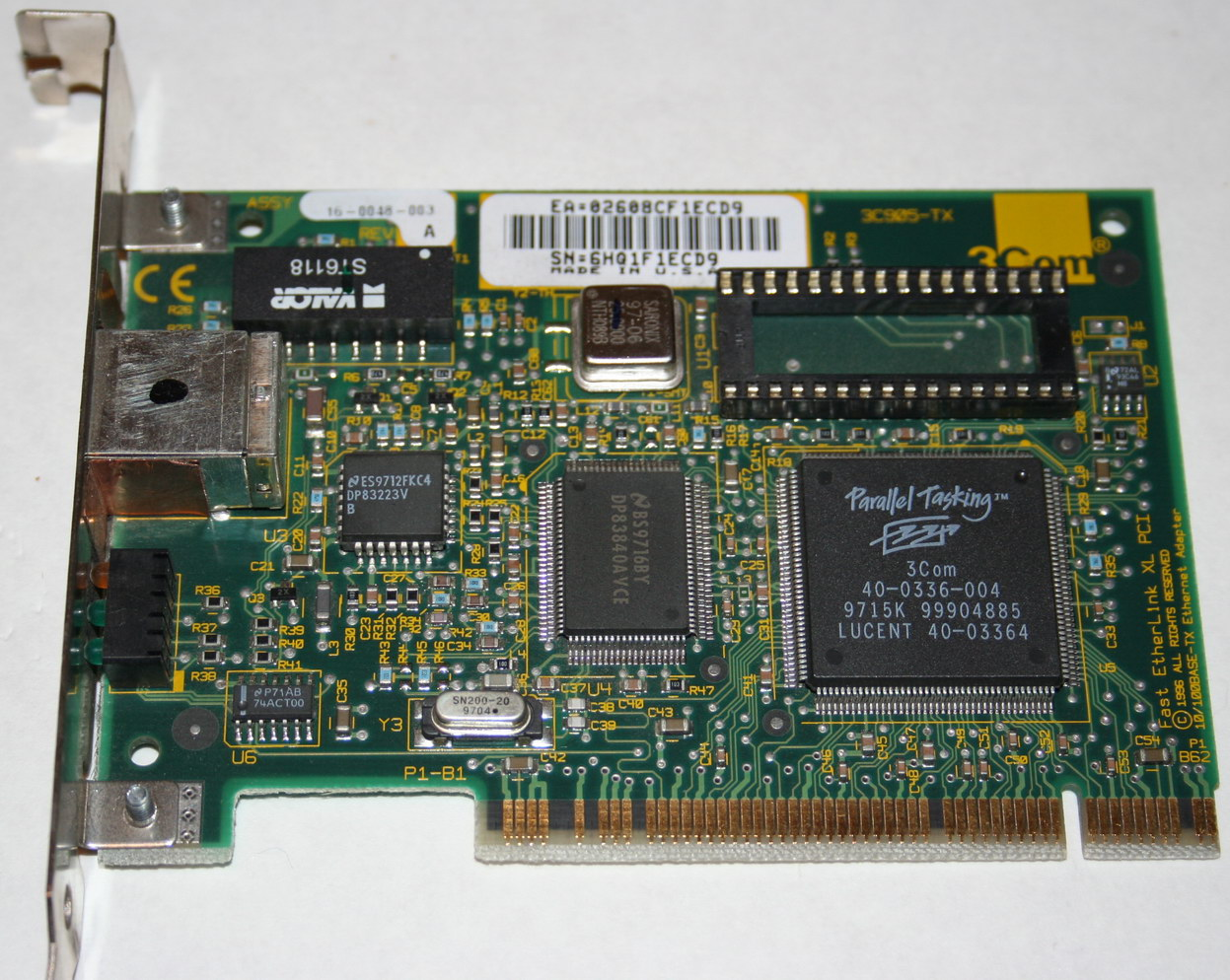 3Com 3c905-TX 10/100 PCI network interface card. Photographed by Roberto Amorim